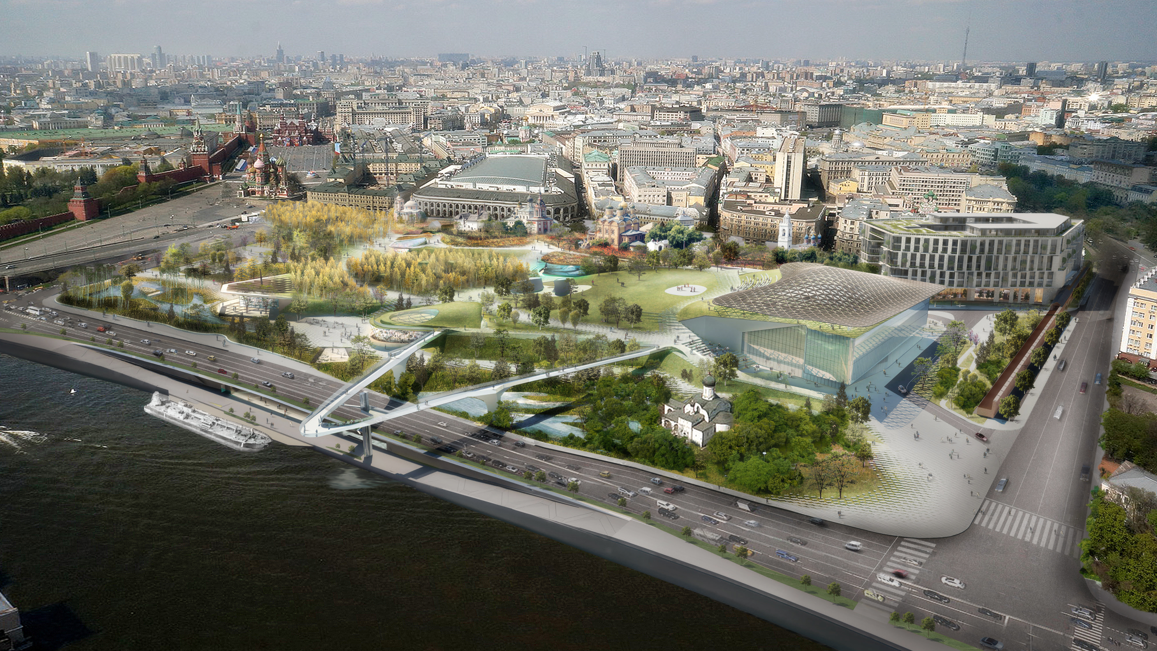 Conception of Park Zaryadye in Moscow